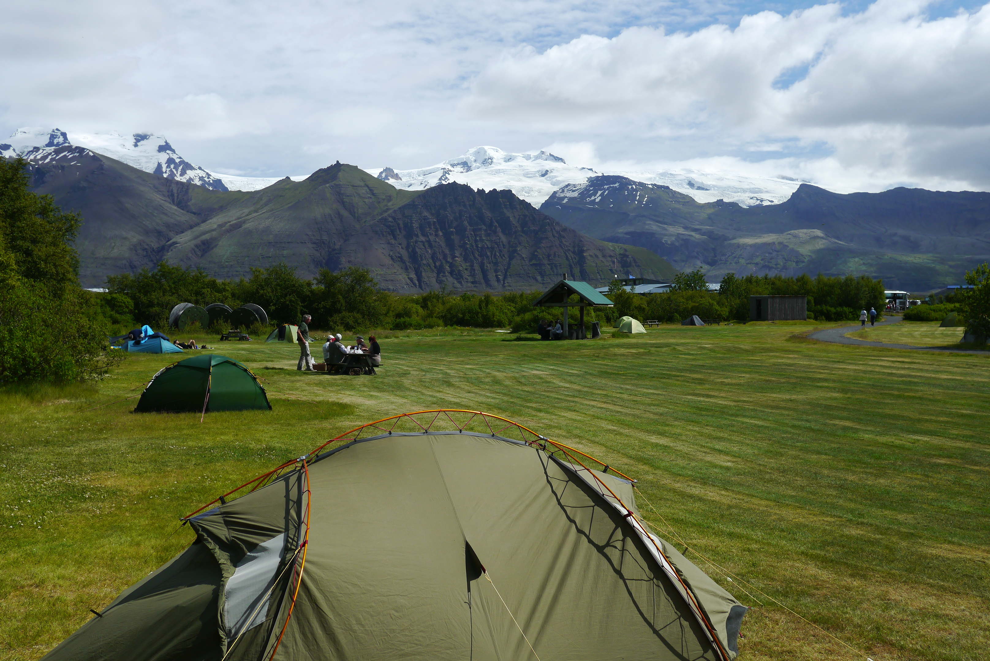 The campsite in Skaftafell, Vatnajökull National Park.